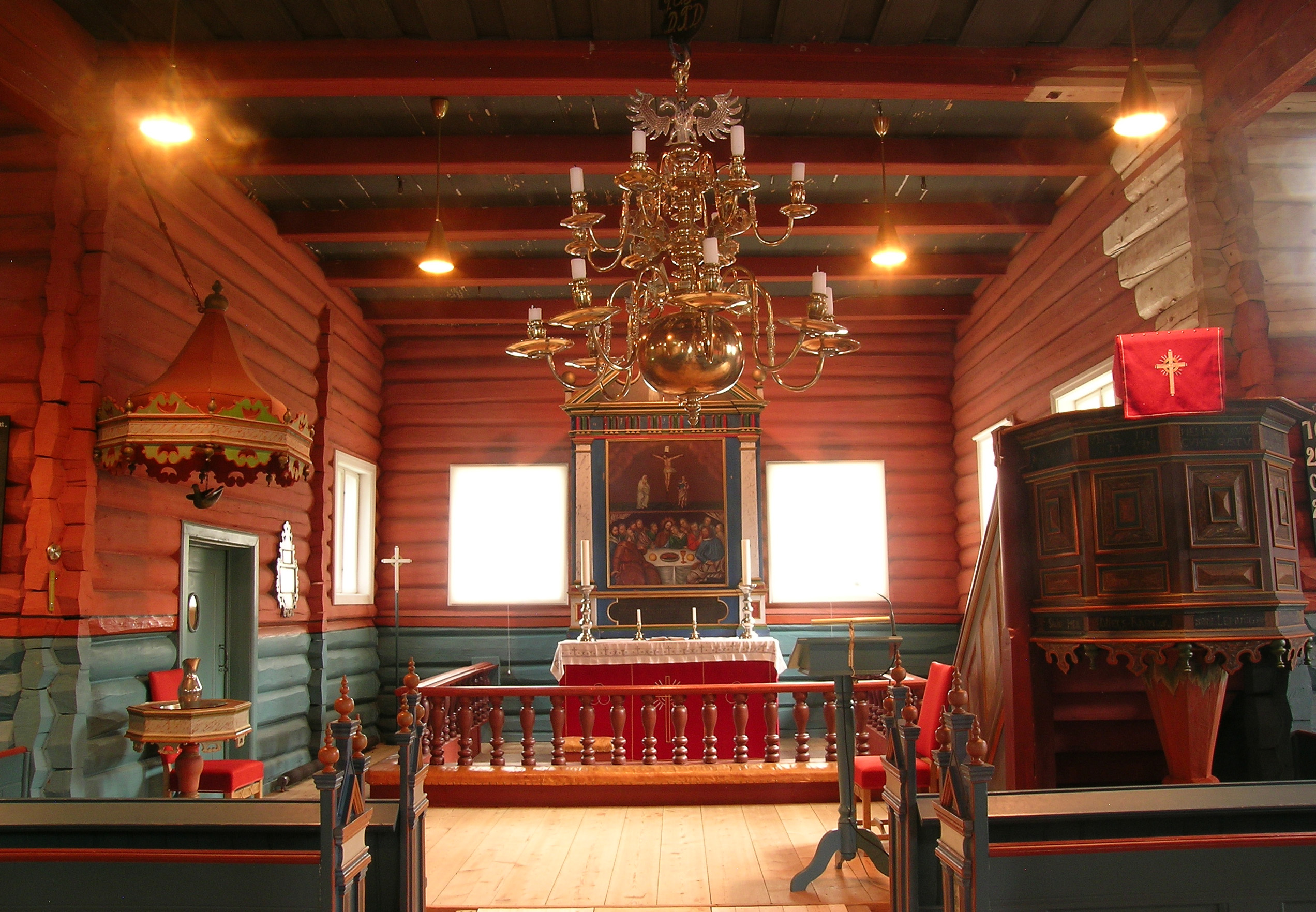 Flesberg stave church; the chancel